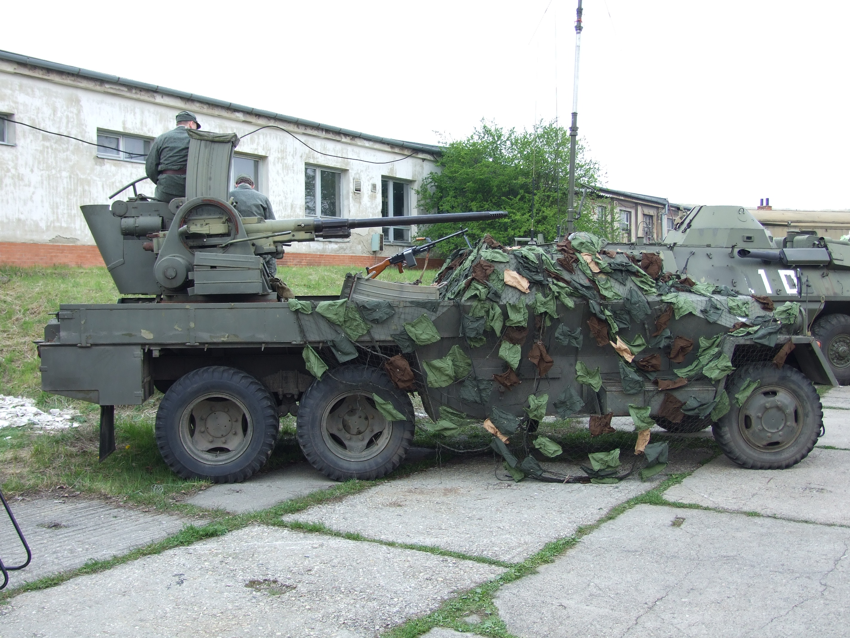 Self-propelled anti-aircraft gun Praga PLDvK. 53/59 Jesterkahelp